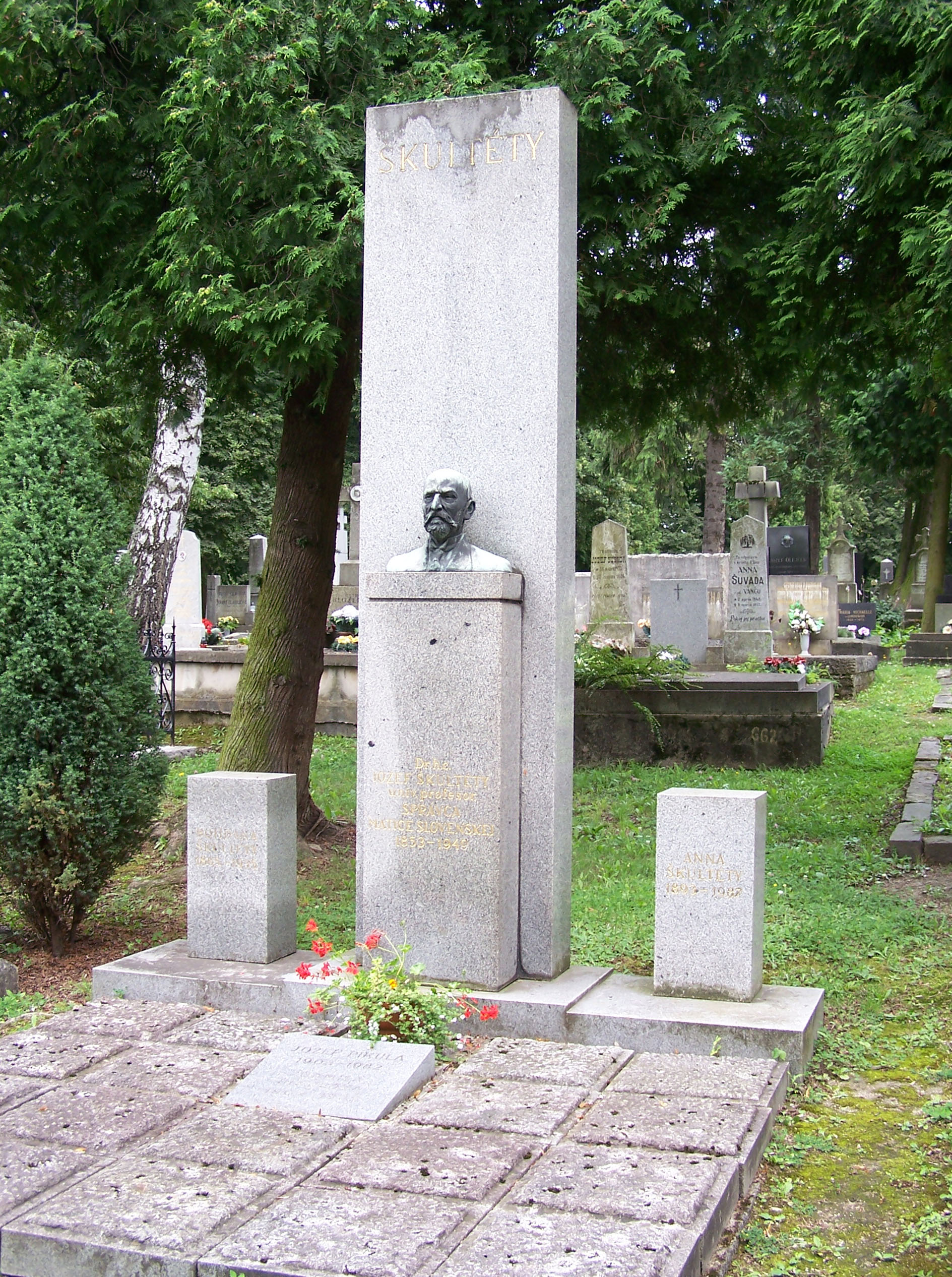 Grave of Jozef Škultéty at the National Cemetery in Martin, Slovakia